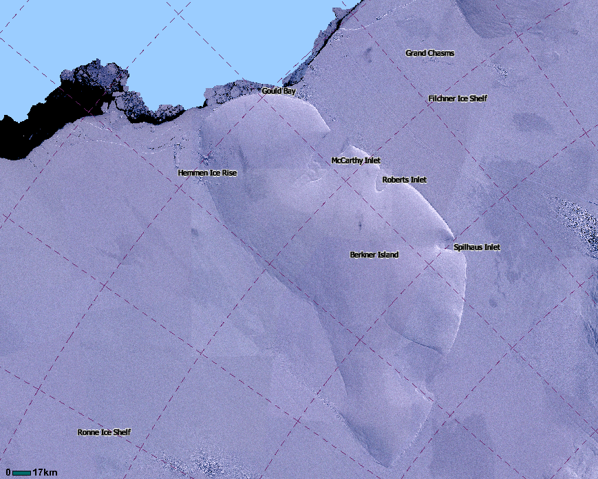 LIMA Satellite image of Berkner Island, Antarctica LIMA Natural Color (Bands 3, 2, 1) -66 Percent brightness +66 Percent contrast